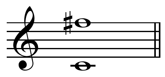 Augmented eleventh on C = F♯'. Just: 25:9 = 1768.72 cents. Equal-tempered: 218/12:1 = 1800 cents. Created by Hyacinth (talk) 04:44, 8 January 2011 using Sibelius 5.